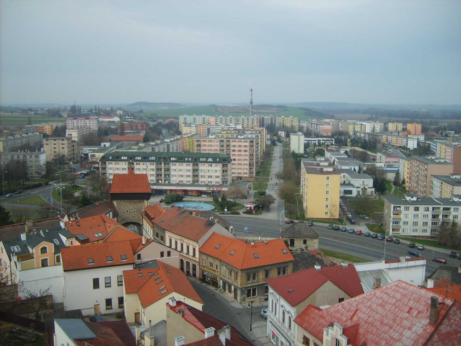 View to Žatecké suburb housing estate from St.Nicholas Cathedral Tower in Louny, CZ Česky: Pohled na sídliště Žatecké předměstí z věžě Chrámu Sv. Mikuláše v Lounech.